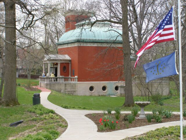 Exterior of the Lew Wallace Library